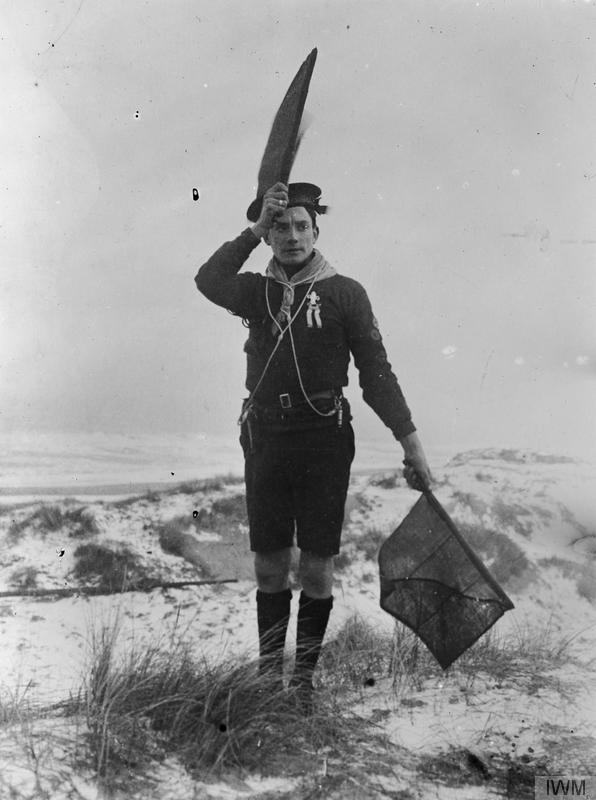 The Boy Scouts Association in Britain, 1914-1918 A member of the Sea Scouts semaphoring to a Torpedo Boat Destroyer at sea.